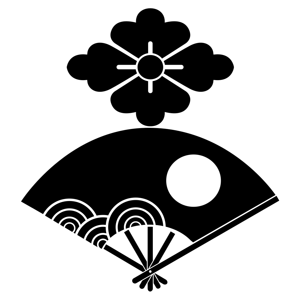 one of the Japanese Crest, Kamon, flower shaped diamond and fan